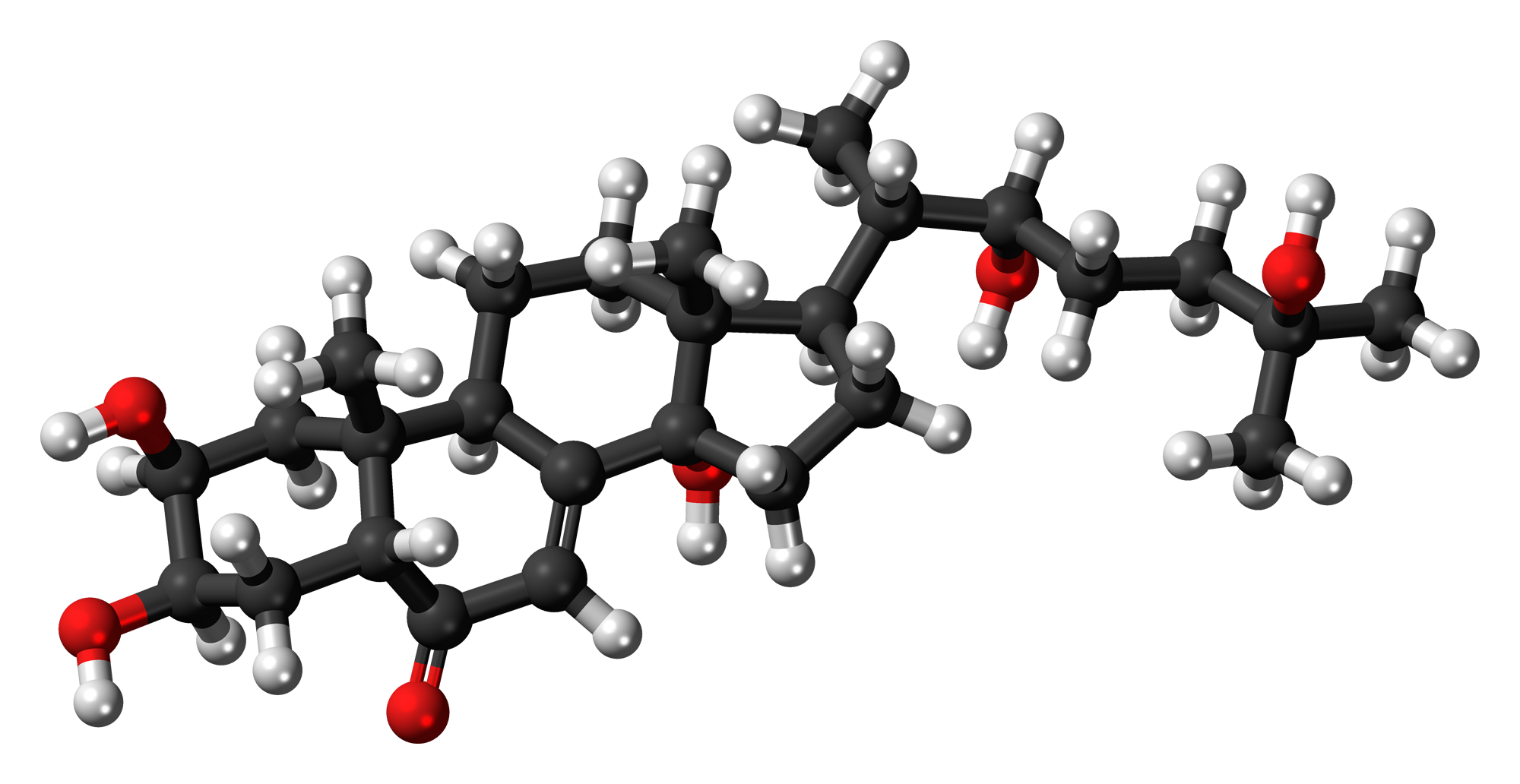 Ball-and-stick model of the ecdysone molecule, a steroid hormone used in insects. Colour code: Carbon, C: black Hydrogen, H: white Oxygen, O: red